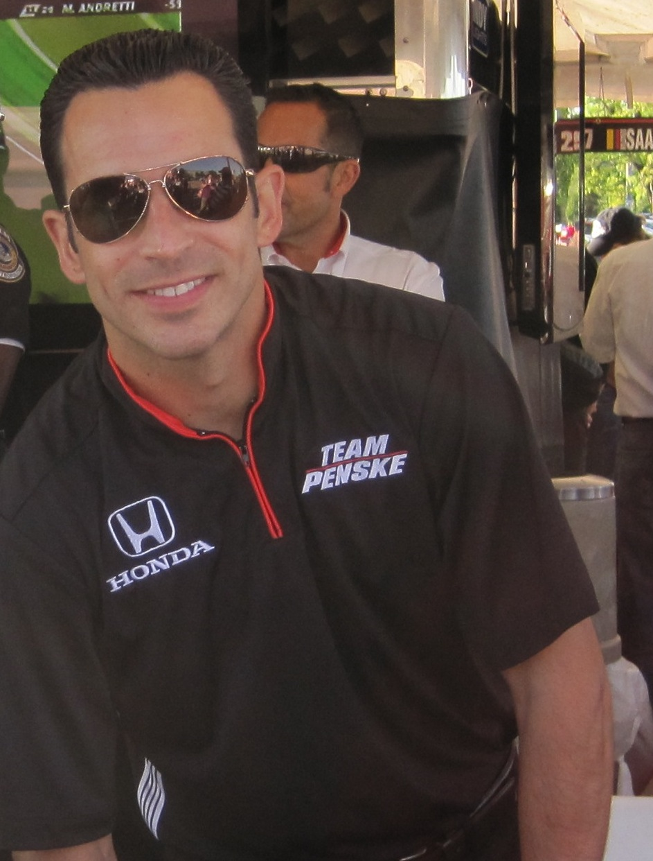 Team Penske's Hélio Castroneves at the 2010 Indianapolis 500 opening weekend autograph session at Castleton Square Mall in Indianapolis, Indiana on Friday, May 14, 2010.